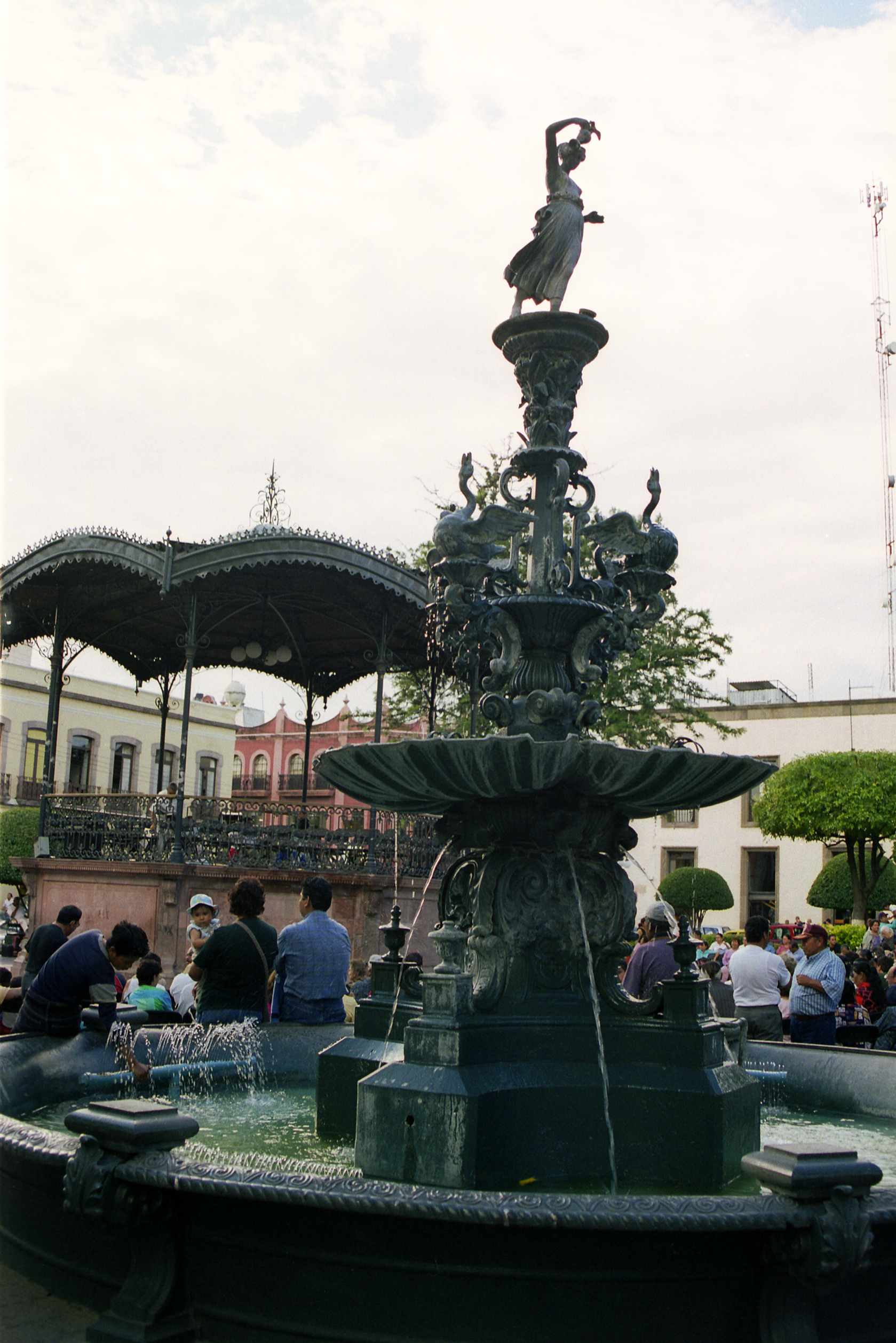 A fountain in central (zocalo) Queretaro, Mexico, designed by Gustav Eiffel